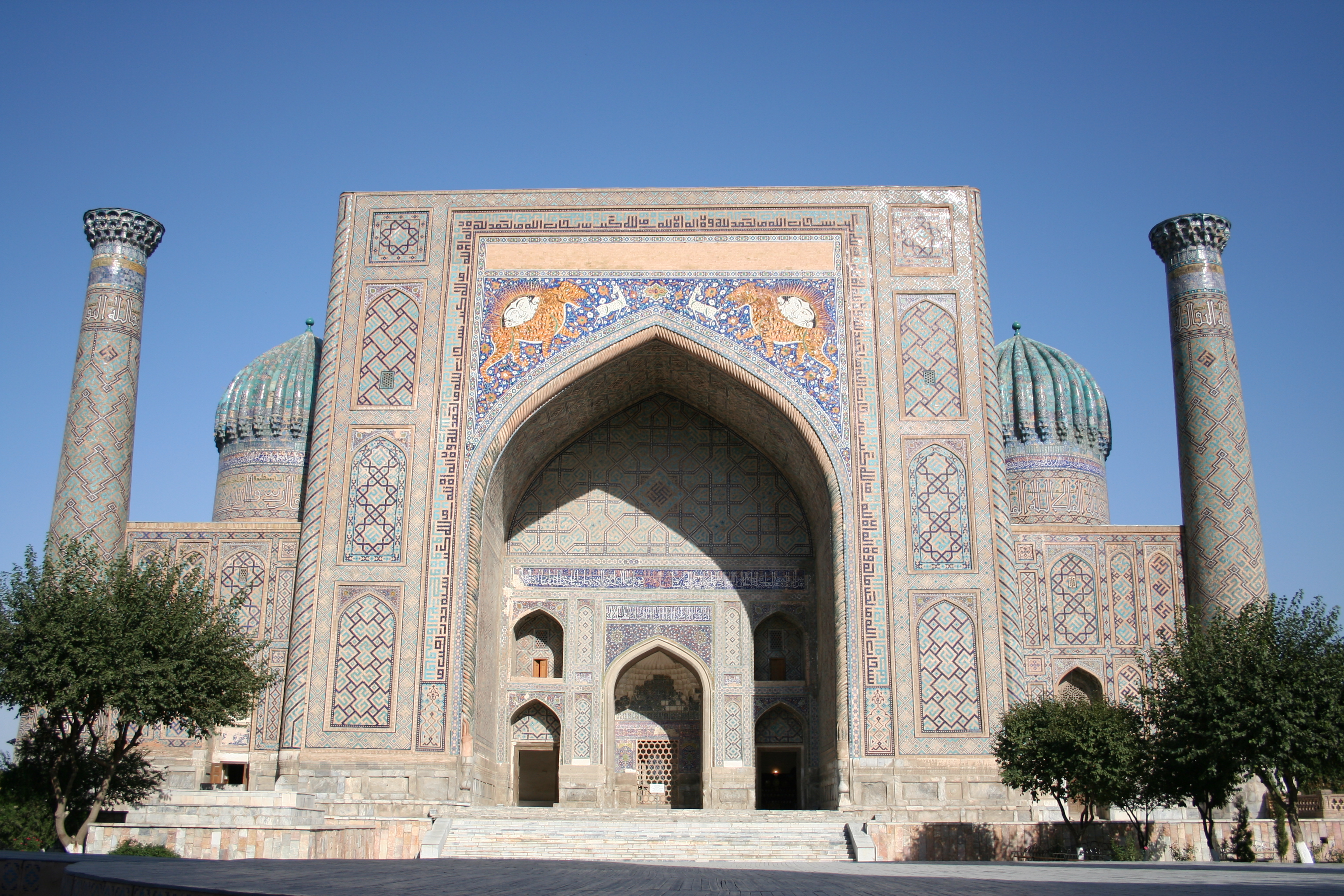 Samarkand, madrasa Shir Dar